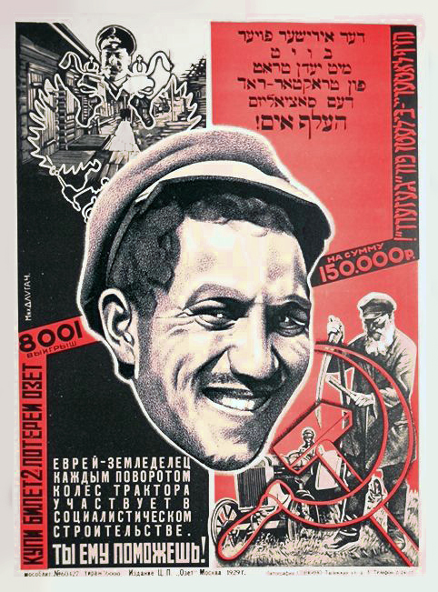 From The Wolfsonian–Florida International University museum: "Ink on paper red, black and white poster with close-up image of smiling male figure in workers cap, farmers with scythe and tractor; text in Russian and Yiddish. Translation as follows: "A Jewish landworker with every turn of the wheel of his tractor makes a contribution to building socialism and you will help him. Buy a ticket for the OZET lottery.""